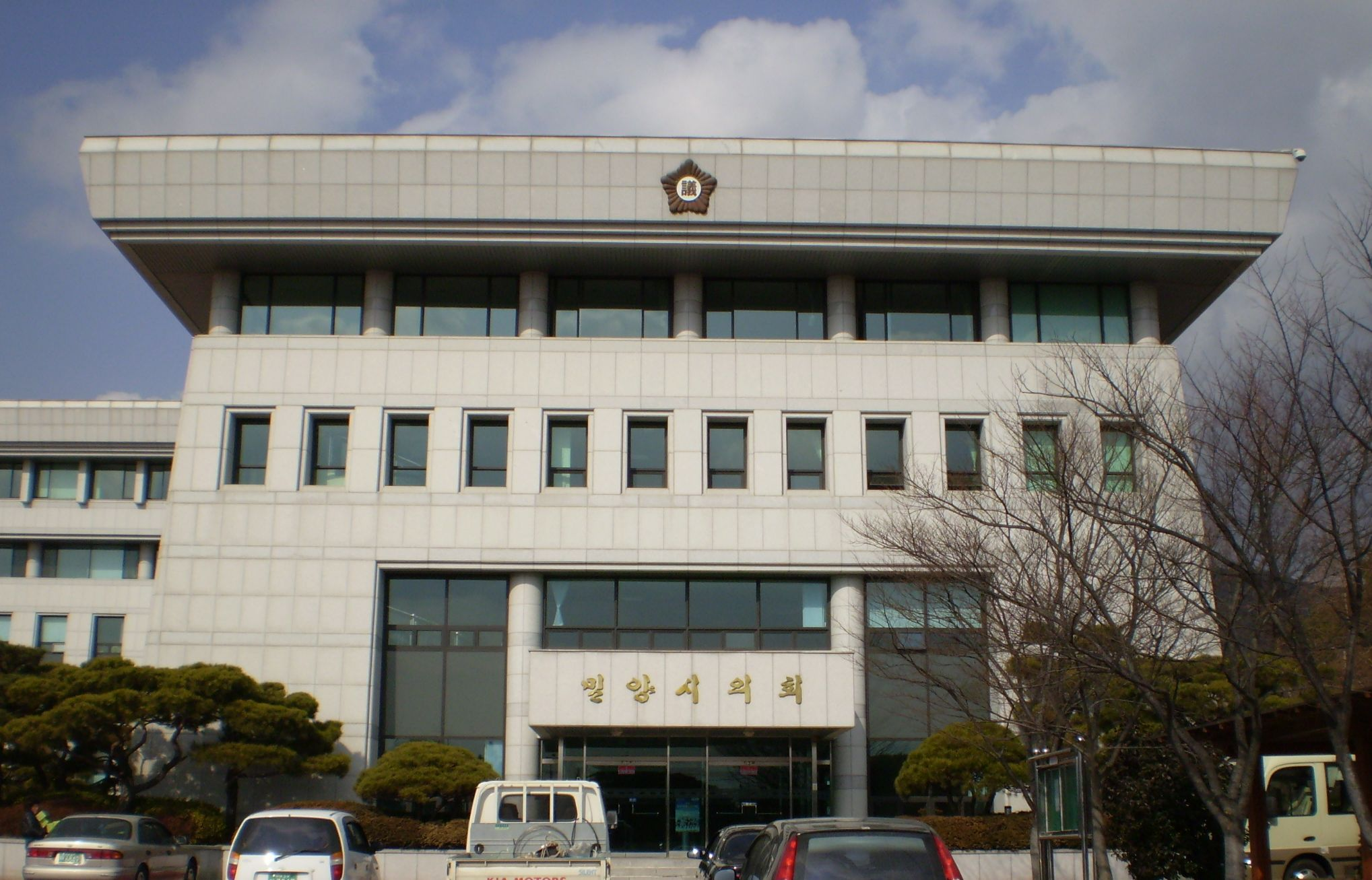 City assembly (시의회) in Miryang, Gyeongsangnam-do, South Korea.